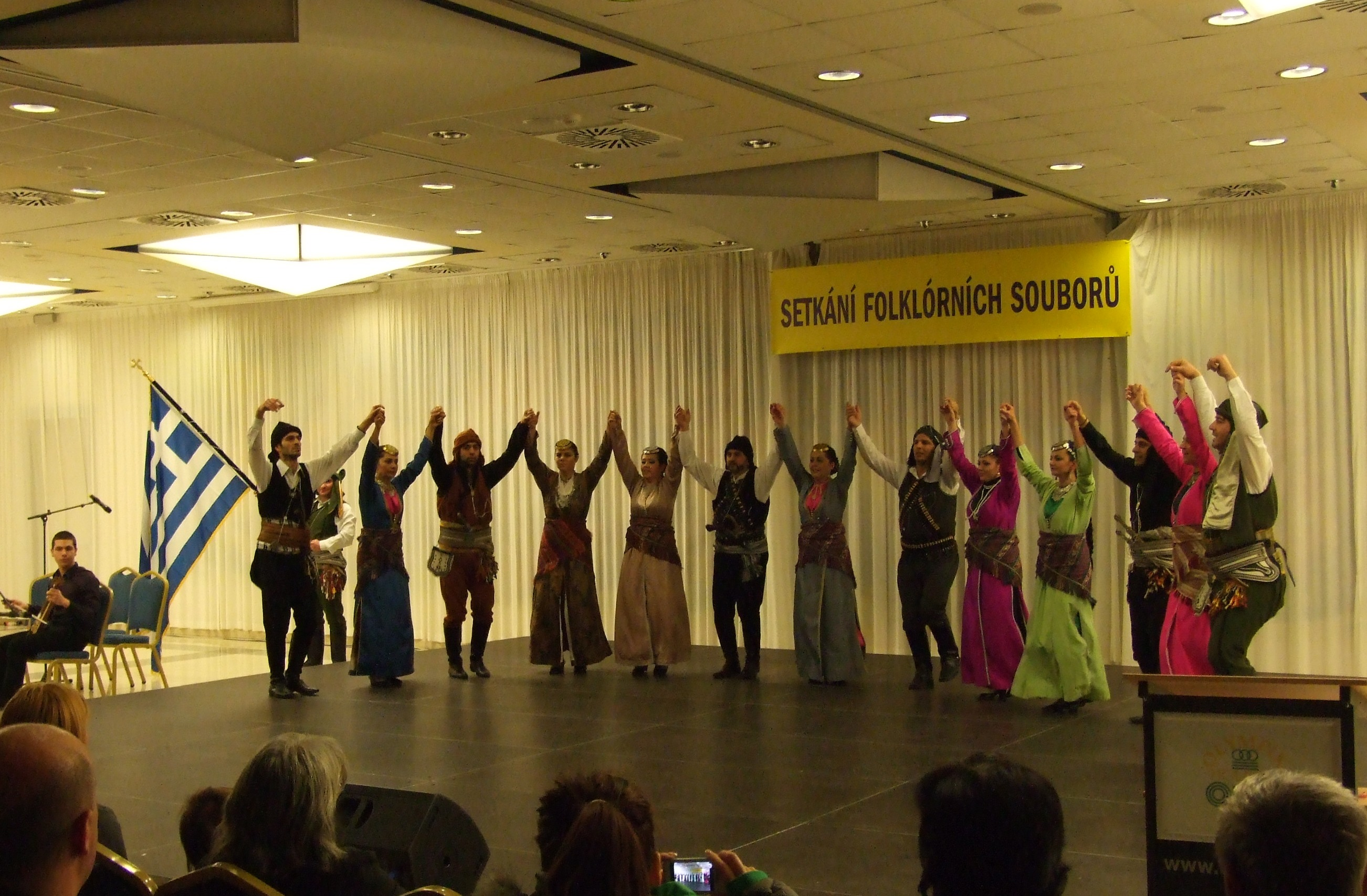 Festival of folk dance of Balkan countries (Bosnia and Herzegovina, Serbia, Greece), in Olympik hotel in Prague, CZ Personality rights warningAlthough this work is freely licensed or in the public domain, the person(s) shown may have rights that legally restrict certain re-uses unless those depicted consent to such uses. In these cases, a model release or other evidence of consent could protect you from infringement claims.